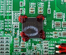 An eZ80 microprocessor inside a Ti-84 plus CE graphing calculator